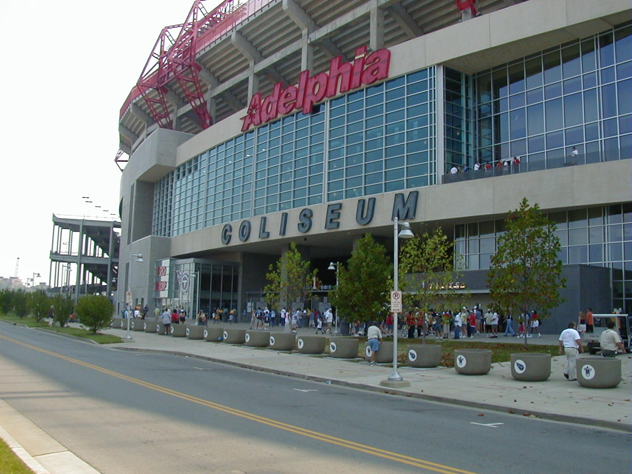 If used somewhere other than Wikipedia, Nelson, by name.